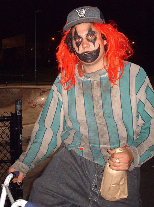 A Juggalo on his bike, celebrating in Oakland, California.